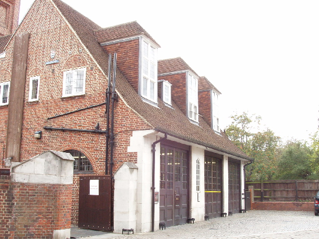 Fire Station, Lancaster Grove and Eton Avenue, Swiss Cottage. "In 1915 Belsize station, in Lancaster Grove, was opened to replace the very cramped St. John's Wood station." Quote from 'Hampstead: Public Services', A History of the County of Middlesex: Volume 9: Hampstead, Paddington (1989), on .